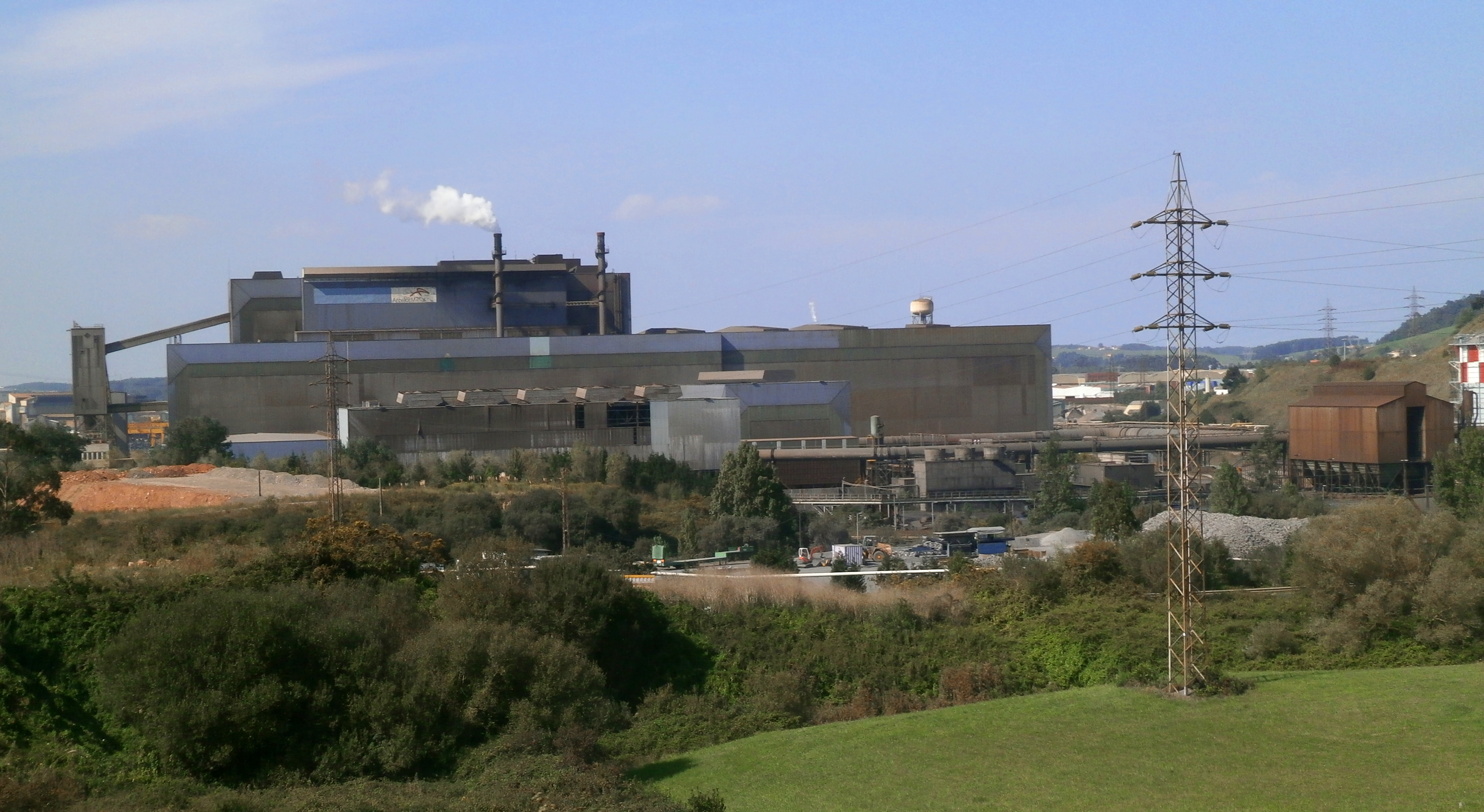 Steel mill of Avilès, Spain. This factory converts pig iron coming from Gijón blast furnaces. Steel converting is done by two Basic Oxygen Furnaces (BOF). The steel is then casted here into slabs by continuous casting.